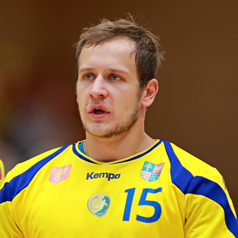 Mateusz Jachlewski, on August 17th, 2012 in Ehingen (Germany), during the Sparkassen Cup (formerly known as Schlecker Cup).